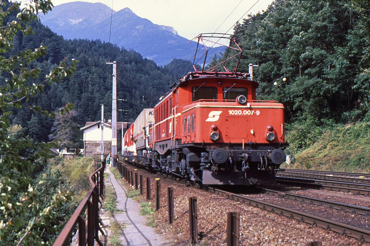 Freight train with 1020 007-9 at Patsch on the Brenner line.